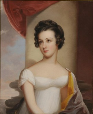 Thomas Sully (1783-1872)